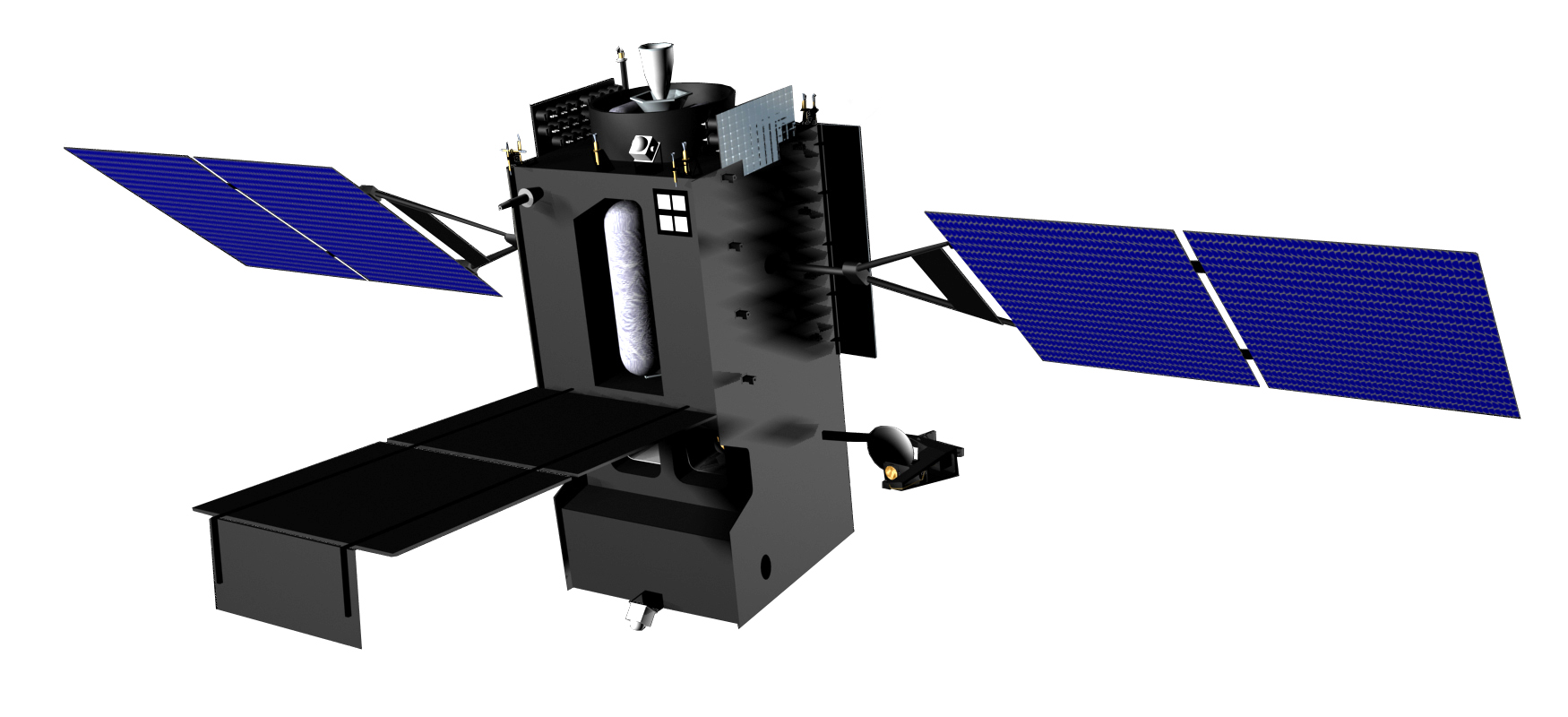 SBIRS-GEO early warning satellite (artist impression)